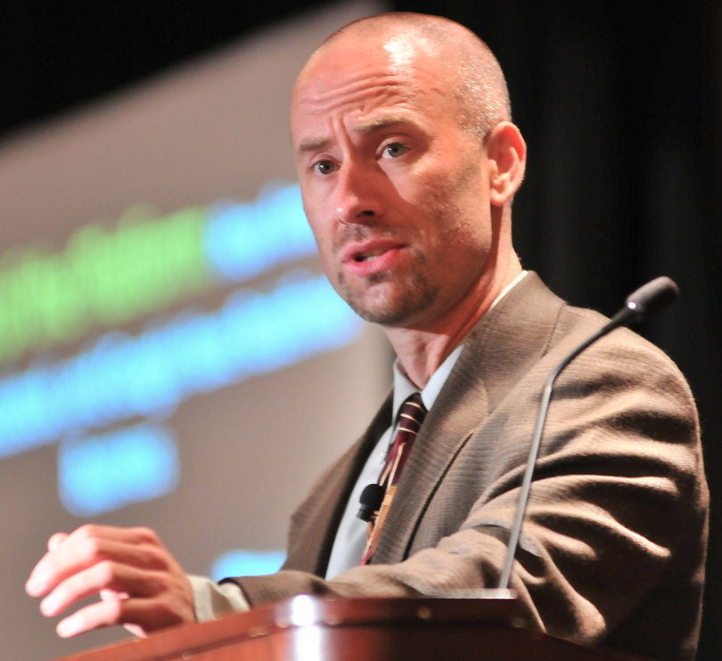 Phil Simon keynoting PostalVision 2020.